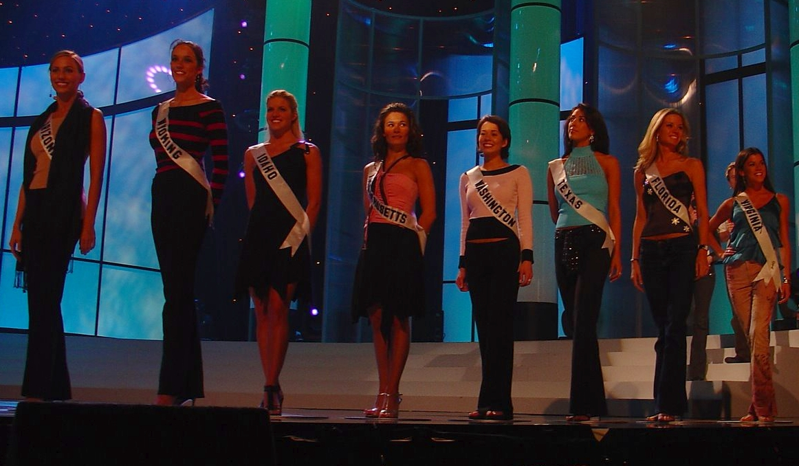 Contestants rehearsing for the Miss USA 2004 pageant